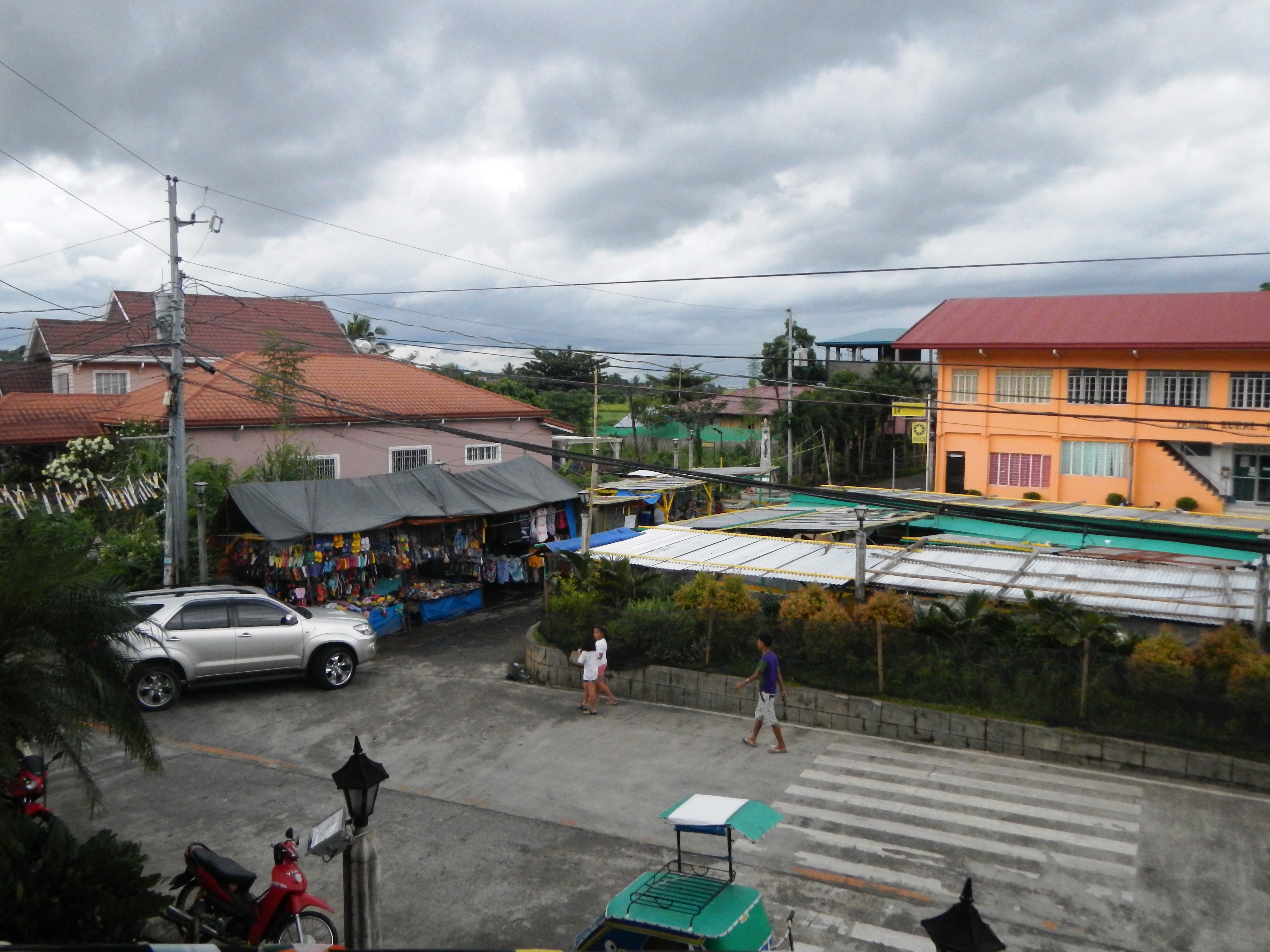 UploadWizard photos --- (general description of landmarks, heritage, culture, comprehensive, photography) of – Gat Paguil and Prince Carlos at the Pangil Town Plaza & Pangil Presidencia or Pangil Municpal Hall [1] Coordinates: 14°24'9"N 121°28'6"E [2] & -- Our Lady's Nativity Parish Church of Pangil [3] Pangil, Laguna [4] Coordinates: 14°24'12"N 121°28'6"E [5]Natividad dela Virgen Maria Church [6] 1611, the residents of Pangil, Laguna constructed a church made from adobe stones and Nuestra Señora de Natividad became its patron saint, they call their saint “Señora de la O” or “Virgen de la O.” Nuestra Señora dela Natividad Parish Church of Pangil Address: Poblacion, Pangil 4018 Laguna, Philippines Feast day: September 8 Parish Priest: Father Ruben A. Dagala -- belongs to the Roman Catholic Diocese of San Pablo [7] [8] --- Pangil, Laguna [9] (is a fourth class municipality of Laguna,[10] Philippines, latest census population of 23,421 people in 4,160 households, land area consists of two non-contiguous parts, separated by Laguna de Bay,[11] subdivided into 8 barangays;[12] Coordinates: 14°24'45"N 121°27'53"E [13] Geographical location: Laguna, Region 4, Philippines, Asia Geographical coordinates: 14° 24' 11" North, 121° 27' 58" East[14] Its first pre-Spanish chieftain named Gat Paguil.[15].